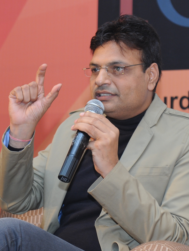 Irshad Kamil in the 1st Delhi Poetry Festival (organized by Poets Corner Group) at New Delhi on 19th January 2013